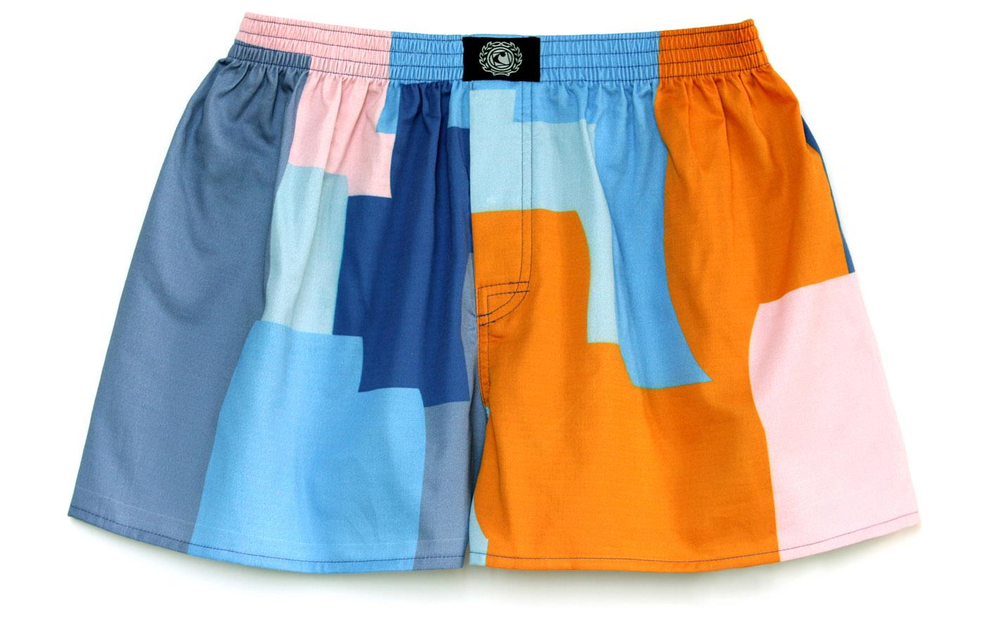 Represent exclusive VSUP boxers